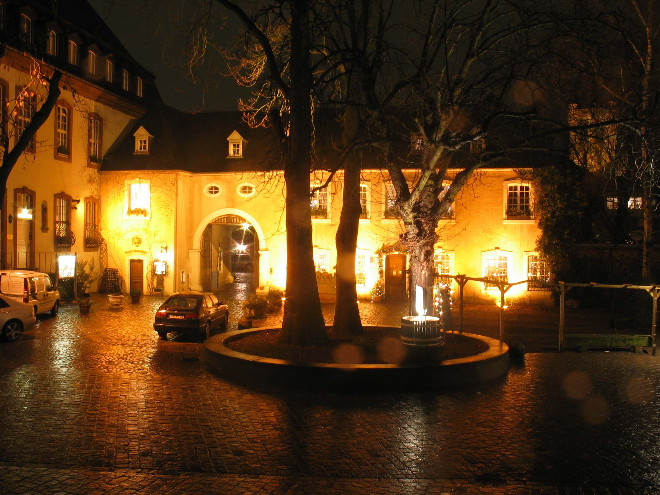 Palais Kesselstadt in Trier